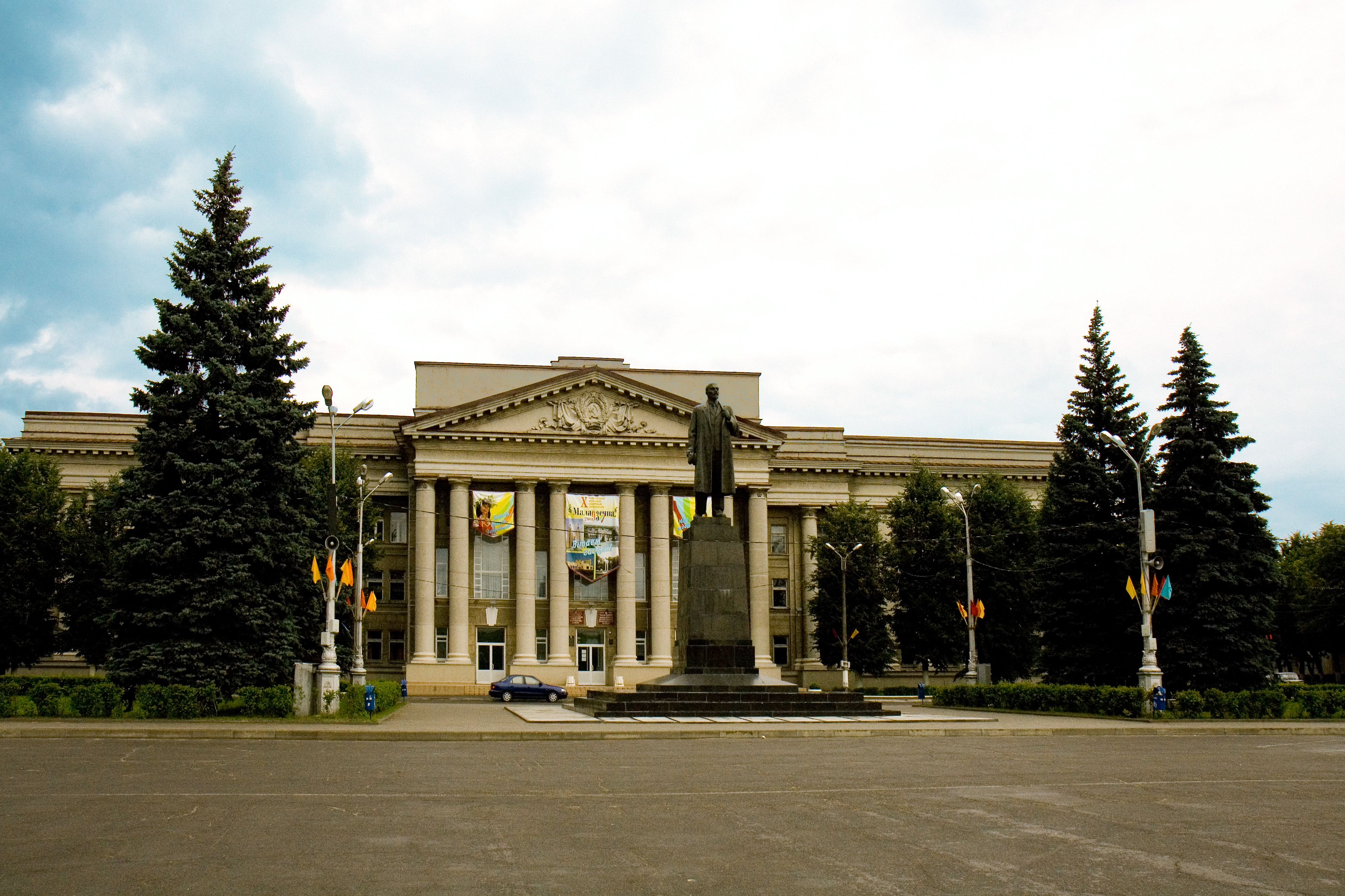 Central square (former Lenin's Square), State Polytechnic College in Maładziečna (Maladzechna), Belarus.